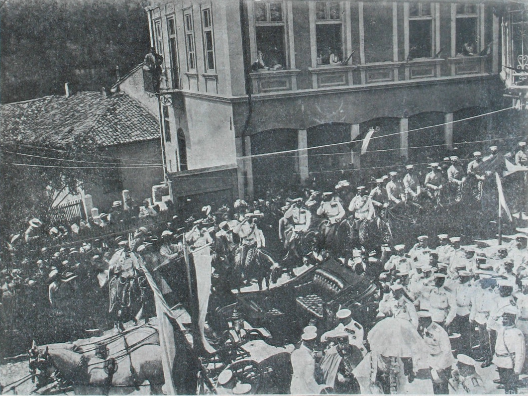 The Opening of the 5th Bulgarian National Assembly